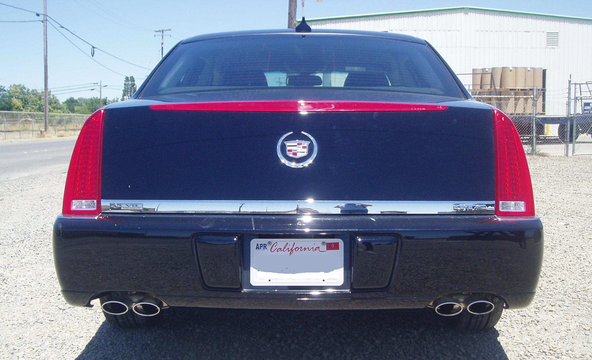 Rear view of a V8 Cadillac DTS